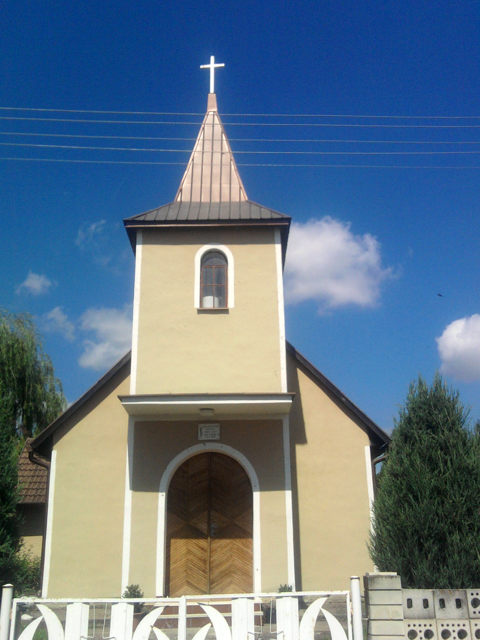 Bory, Levice District, cat. church